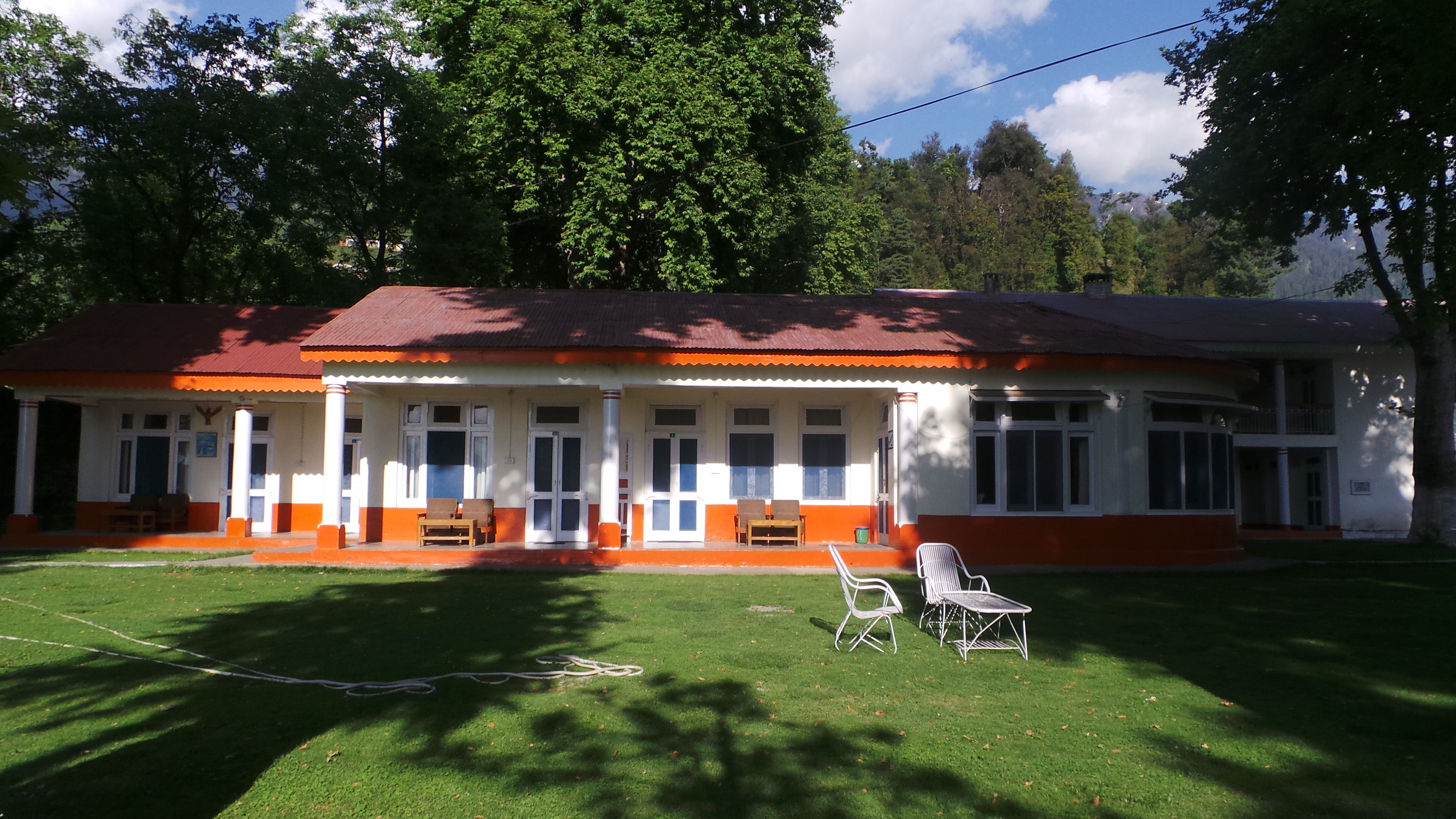 Miandam ptdc motel